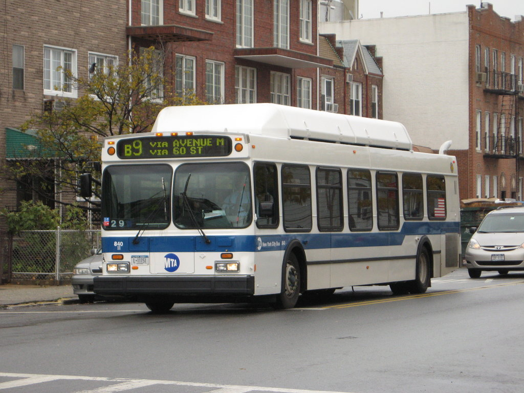 NYCTA New Flyer C40LF bus 840 in Brooklyn, New York, on the B9 line in Bensonhurst.